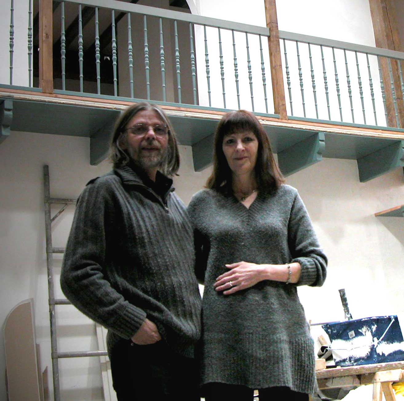 Rob en Laura Møhlmann, owners Museum Møhlmann (2008)